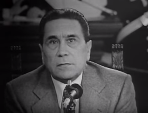 General Saverio Malizia portrayed during the testimony of the Catanzaro trial on the Piazza Fontana massacre. Taken from The fourth installment of the Catanzaro trial related to the massacre of Piazza Fontana in 1969. Depositions of Minister Tanassi and Vito Miceli.